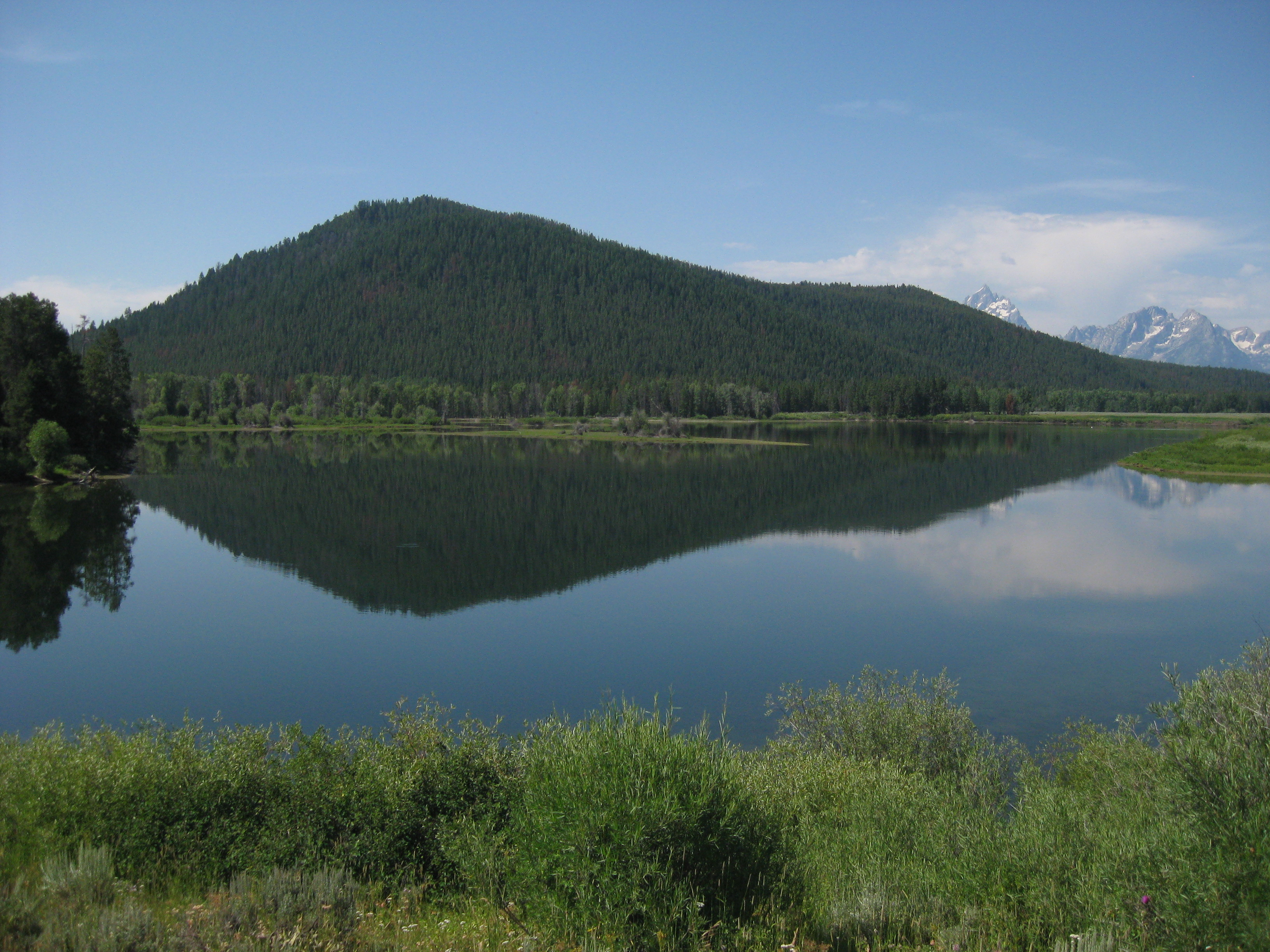 Oxbow Bend of the Snake River reflecting Signal Mountain, Wyoming